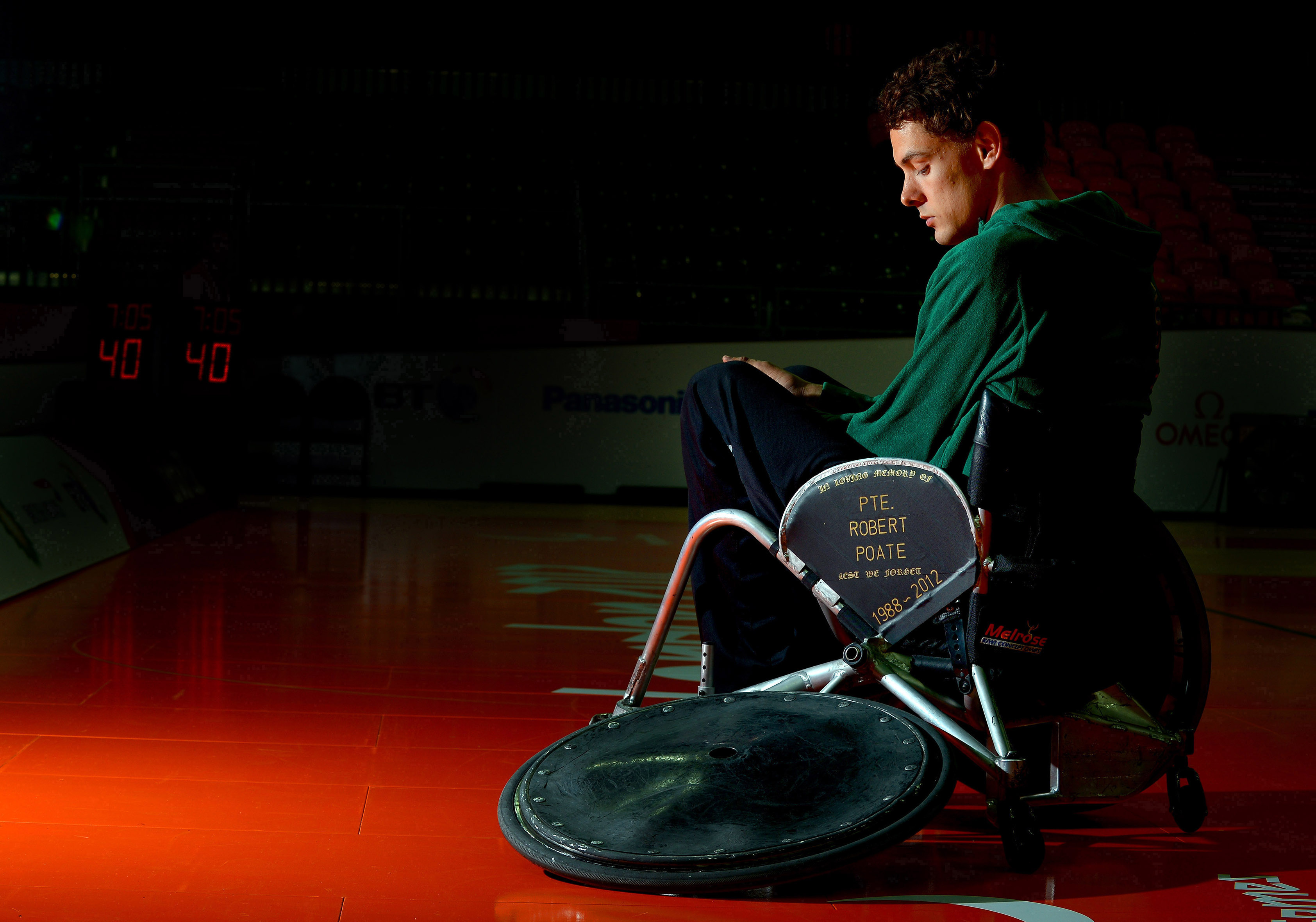 Photograph of Australian Paralympic team member Cody Meakin at the 2012 Summer Paralympic Games in London